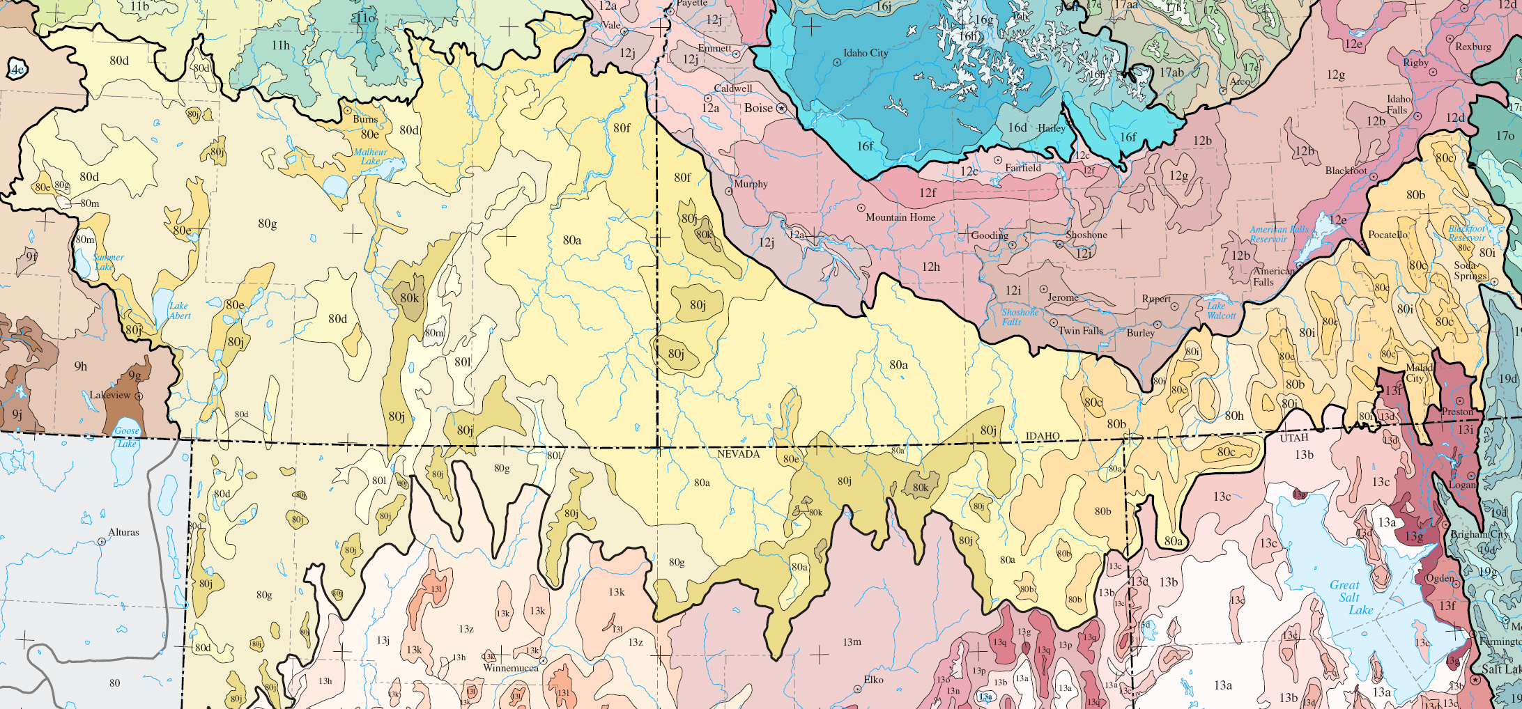 Level IV ecoregions in the Northern Basin and Range ecoregion, as defined by the EPA. This map is a draft and may now be slightly outdated. For more information about these ecoregions, see